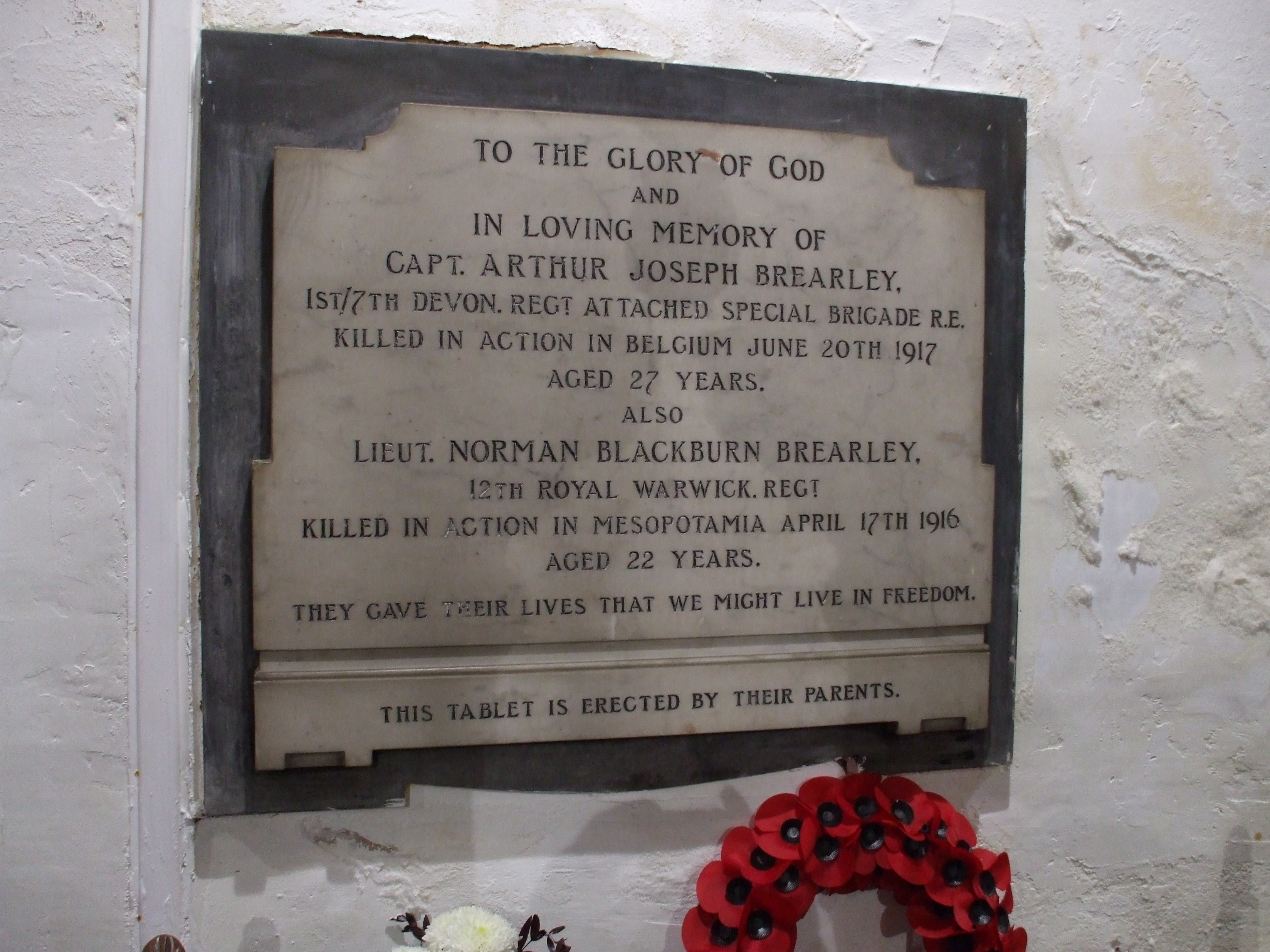 Church of England parish church of St Cyprian, Hay Mills, Birmingham: monument to Arthur and Norman Brearley